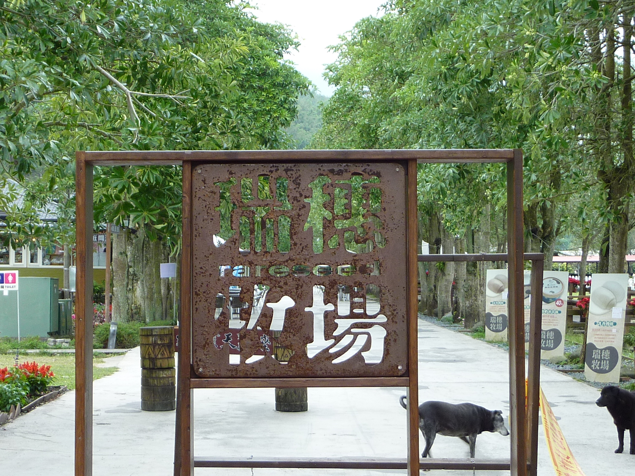 Rareseed Ranch entrance